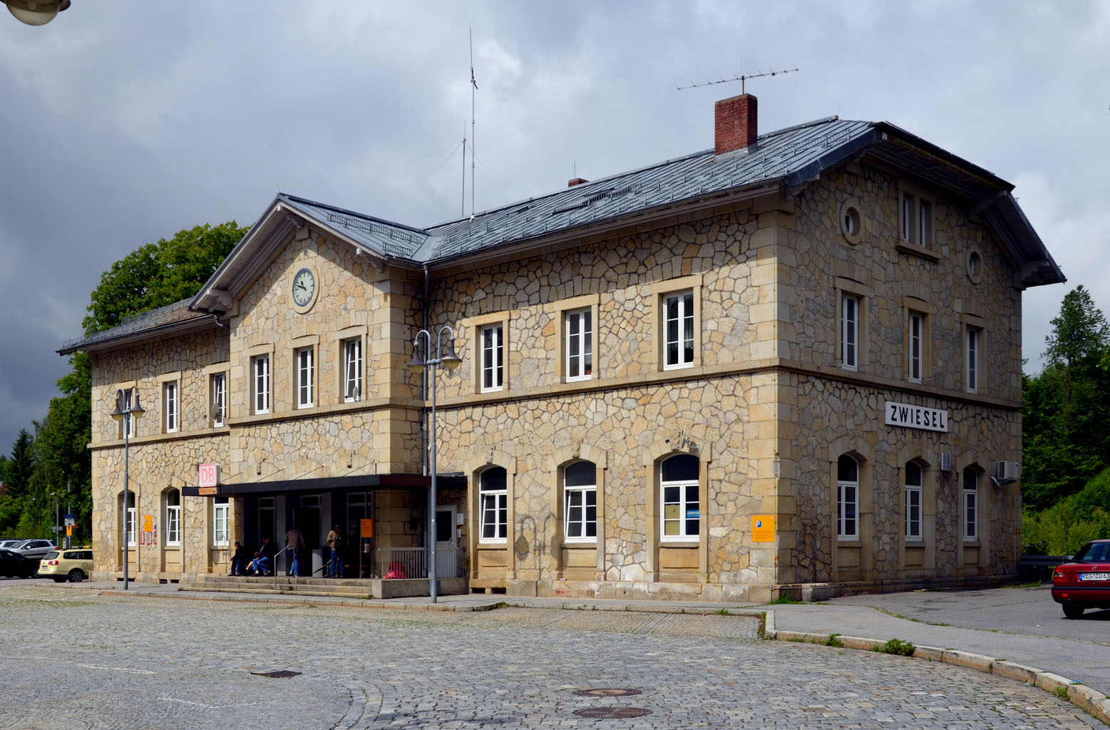 Train station in Zwiesel